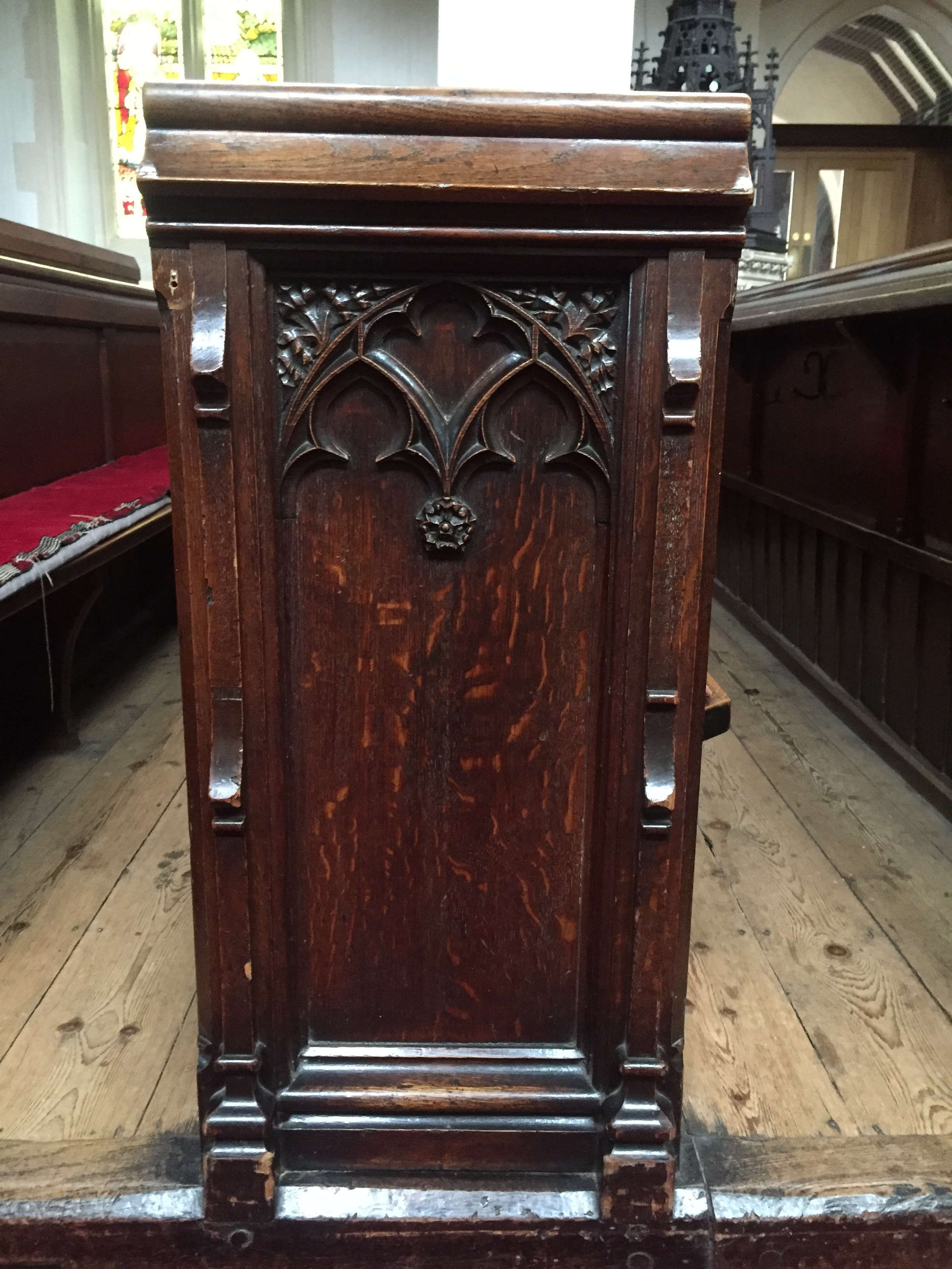 Pews in Saint Mary's Church, Watford, Hertfordshire. The pews were installed by George Gilbert Scott in 1850 and are noted for their decorated carving.